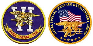 Team6-DEVGRU_logos.jpg